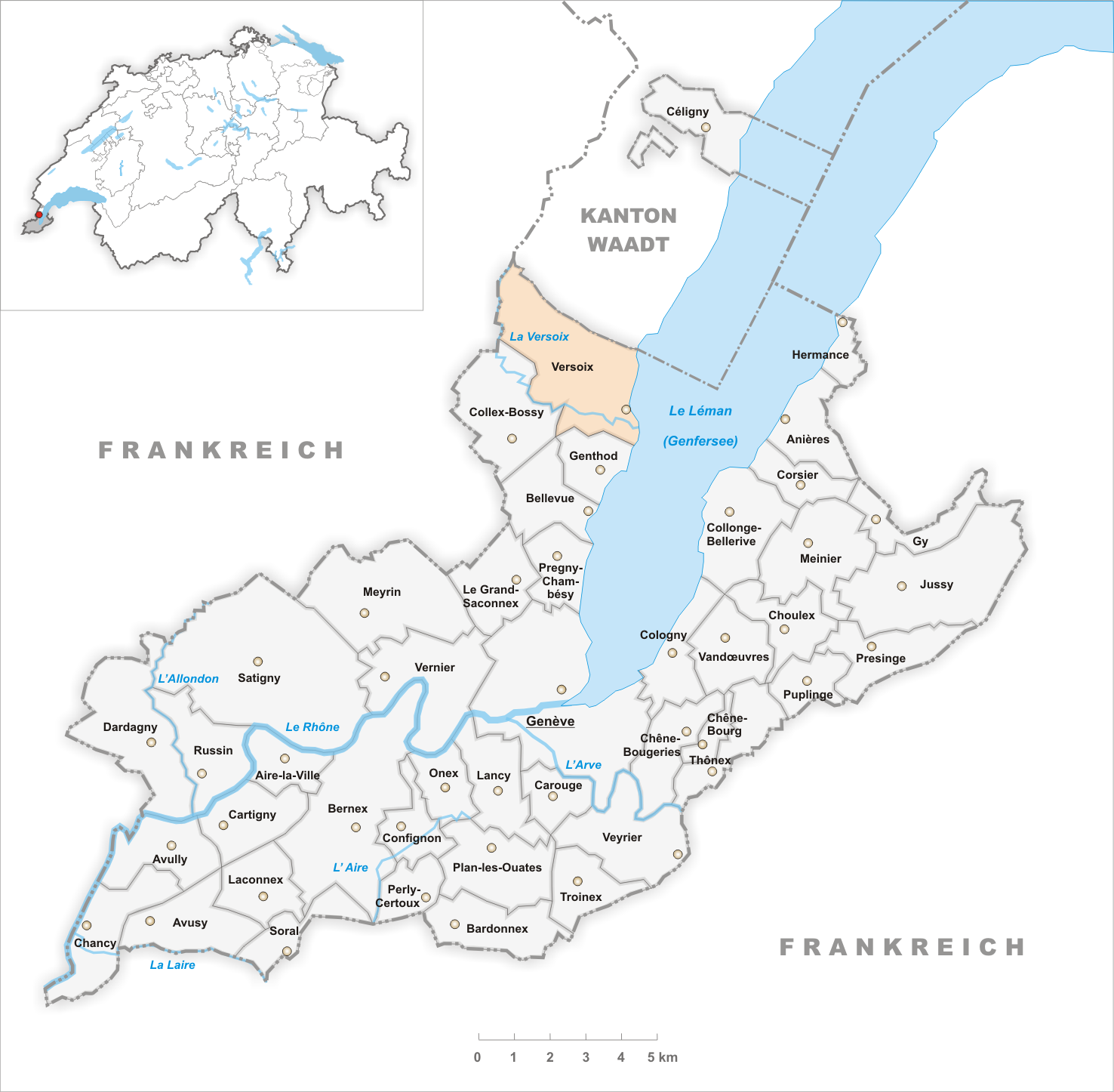 Municipality Versoix